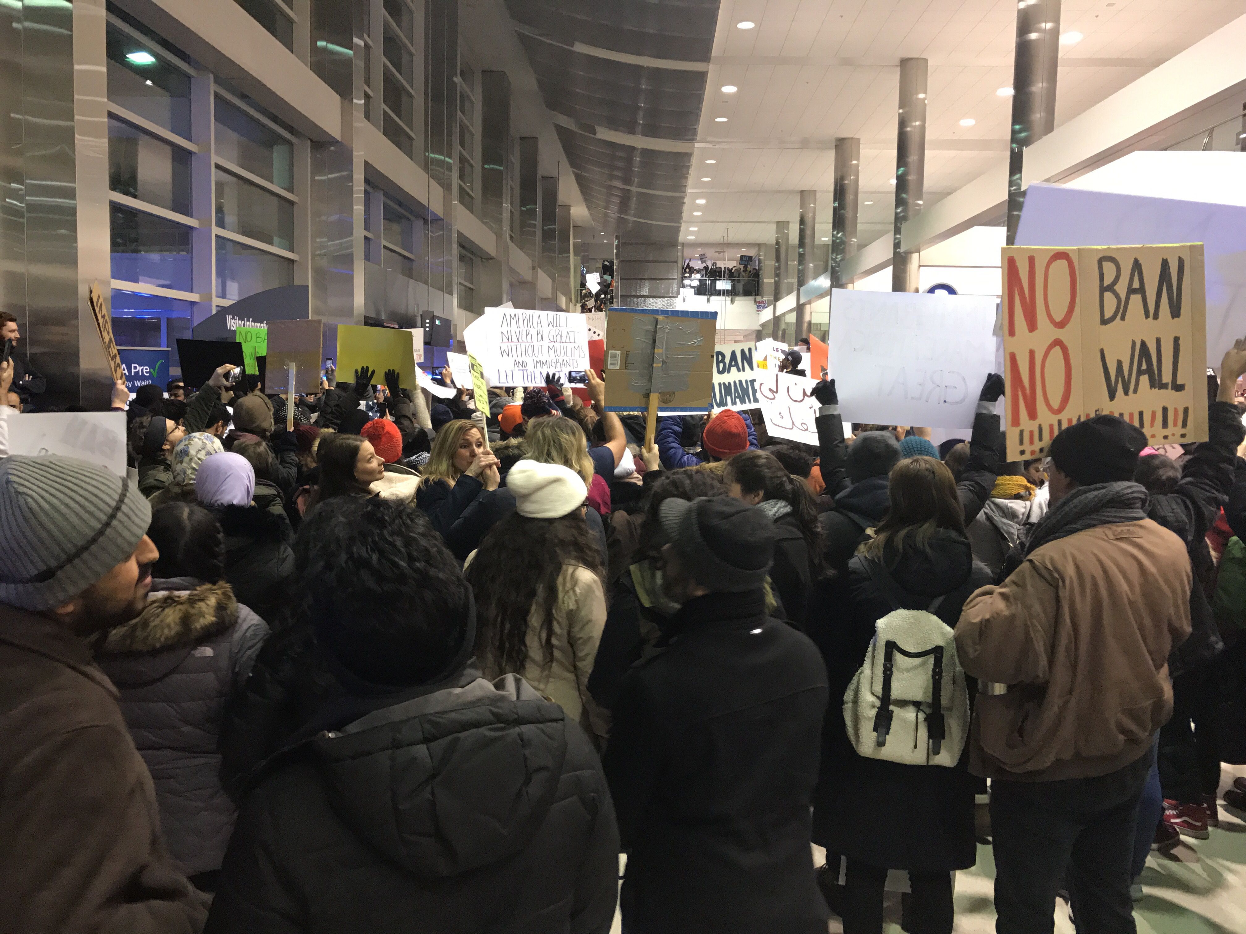 Emergency protest against Muslim ban at Detroit Metropolitan Wayne County Airport's McNamara Terminal on 29 January 2017.